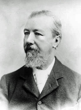 Reproduced from Edward Winter's Chess Notes - Public Domain by age.